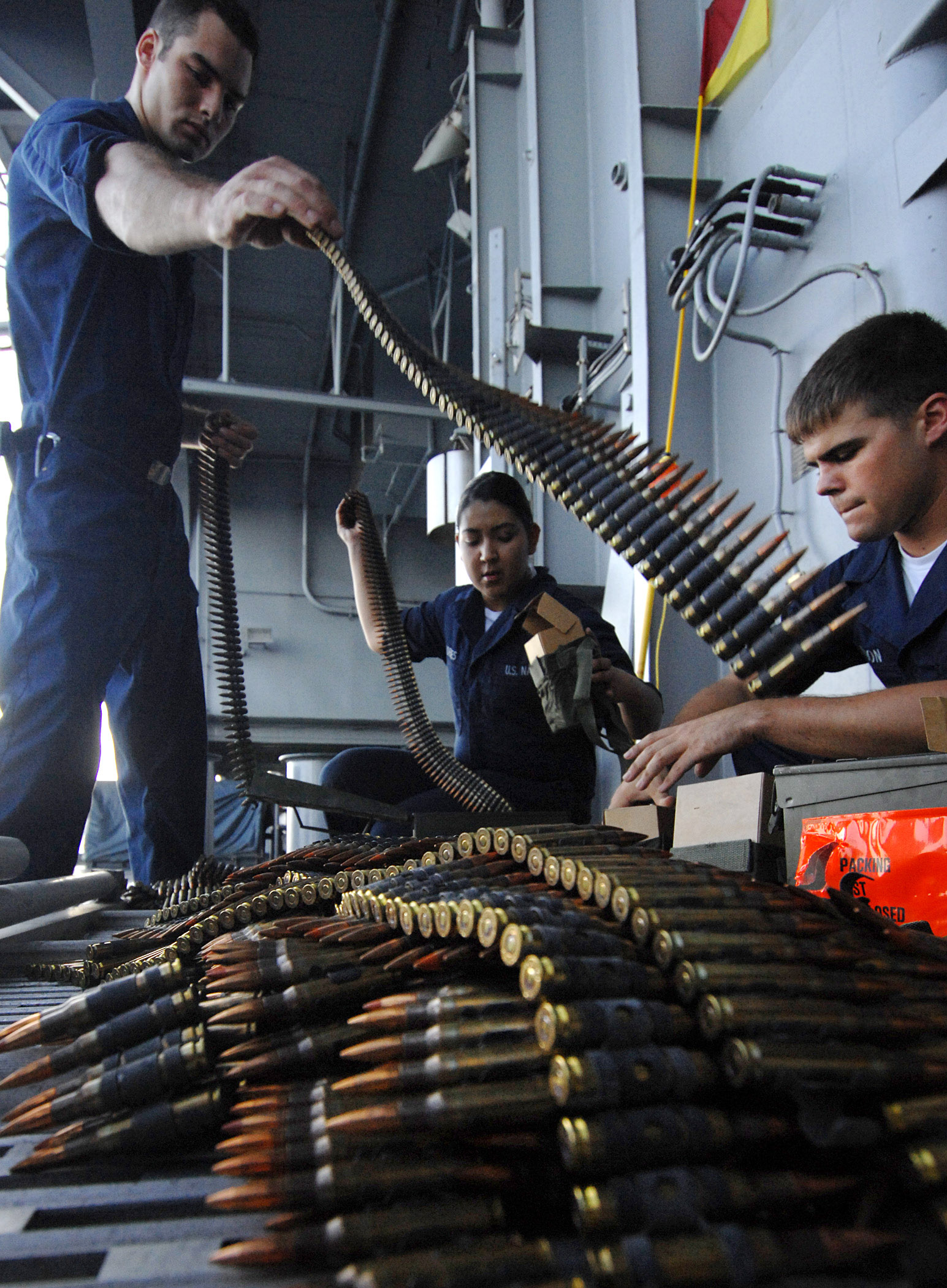 ATLANTIC OCEAN (July 12, 2007) - Sailors prepare for an M-240 machine gun shoot on the fantail aboard Nimitz-class aircraft carrier USS Harry S. Truman (CVN 75). Truman is underway in the Atlantic Ocean participating in the Composite Training Unit Exercise (COMTUEX) in preparation for deployment to the Persian Gulf. U.S. Navy photo by Seaman Kevin T. Murray Jr. (RELEASED)